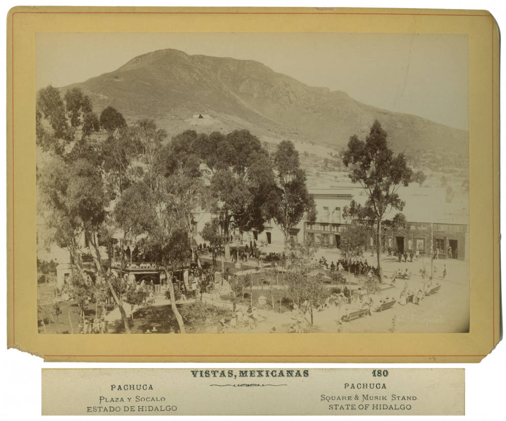 Title: Pachuca, Plaza y Socalo Alternative Title: Pachuca, Square & Musik [sic] Stand Creator: Briquet, Abel Date: ca. 1885-1899 Part Of: Views in Mexico Place: Pachuca de Soto, Hidalgo, Mexico Description: The Plaza de las Diligencias, later renamed the Plaza Independencia, in Pachuca de Soto, Mexico. Physical Description: 1 photographic print on boudoir card mount: albumen; 13 x 19 cm on 16 x 22 cm mount File: ag1985_0372_180c_pachuca.jpg Rights: Please cite DeGolyer Library, Southern Methodist University when using this file. A high-resolution version of this file may be obtained for a fee. For details see the web page. For other information, . For more information and to view the image in high resolution, see: View the Mexico: Photographs, Manuscripts, and Imprints